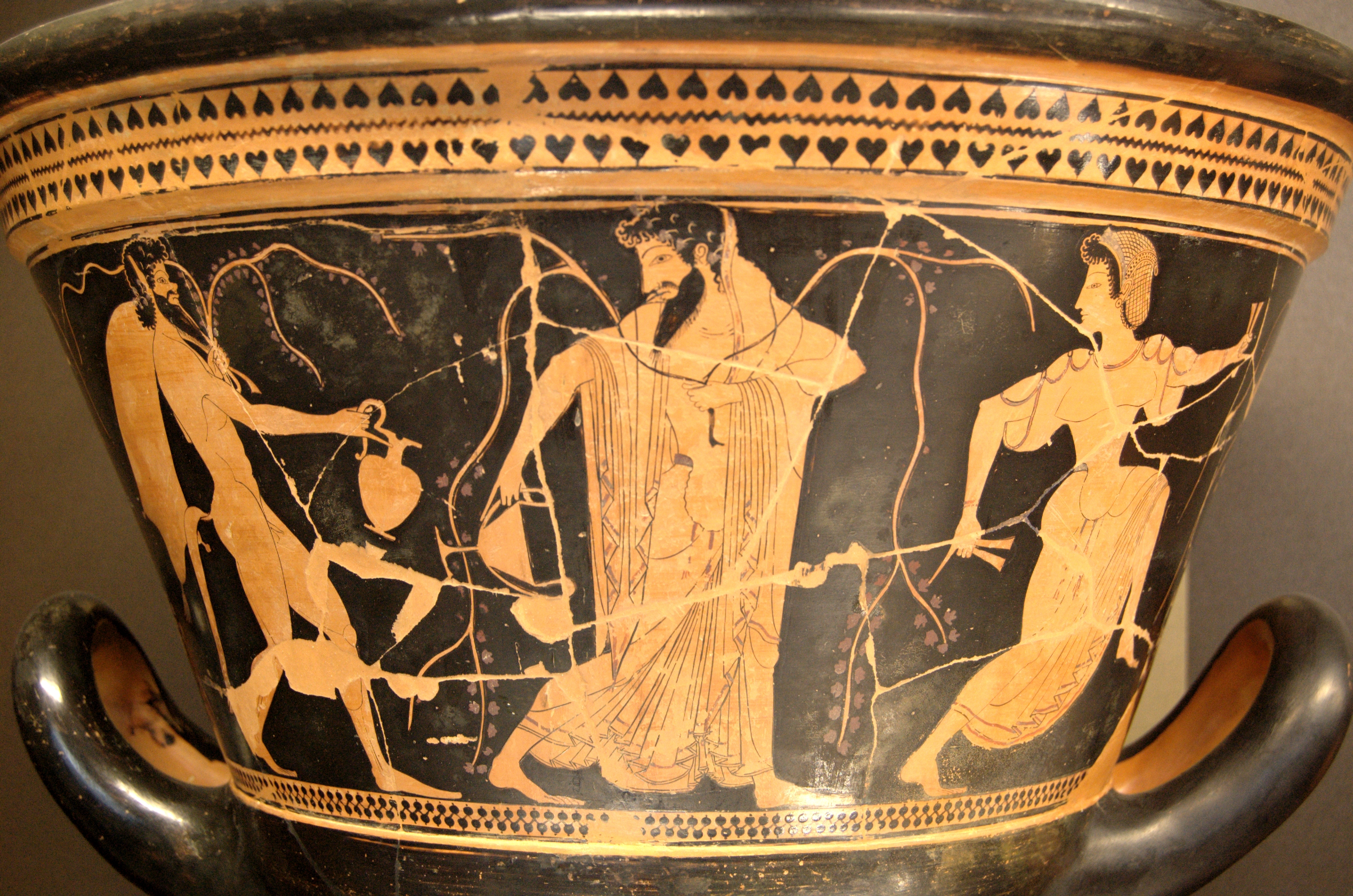 Dionysos, silenus and maenad. Side B from an Attic red-figure calyx-krater, 520–510 BC.